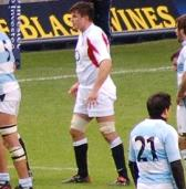 England Argentina